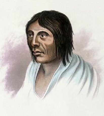 Kalapuya man of today's Willamette Valley, Oregon, USA; circa 1840. 19th Century book illustration, attributed by the Library of Congress at to the artist Alfred T. Agate (1812-1846) and the engraver William H. Dougal (1822-1895). Copy of image resides at Library of Congress Rare Book and Special Collections Division Washington, D.C. 20540 USA. Published in the USA prior to 1923, public domain. Additional digital editing by Tim Davenport ("Carrite") for Wikipedia, no copyright claimed, released to the public domain without restriction.